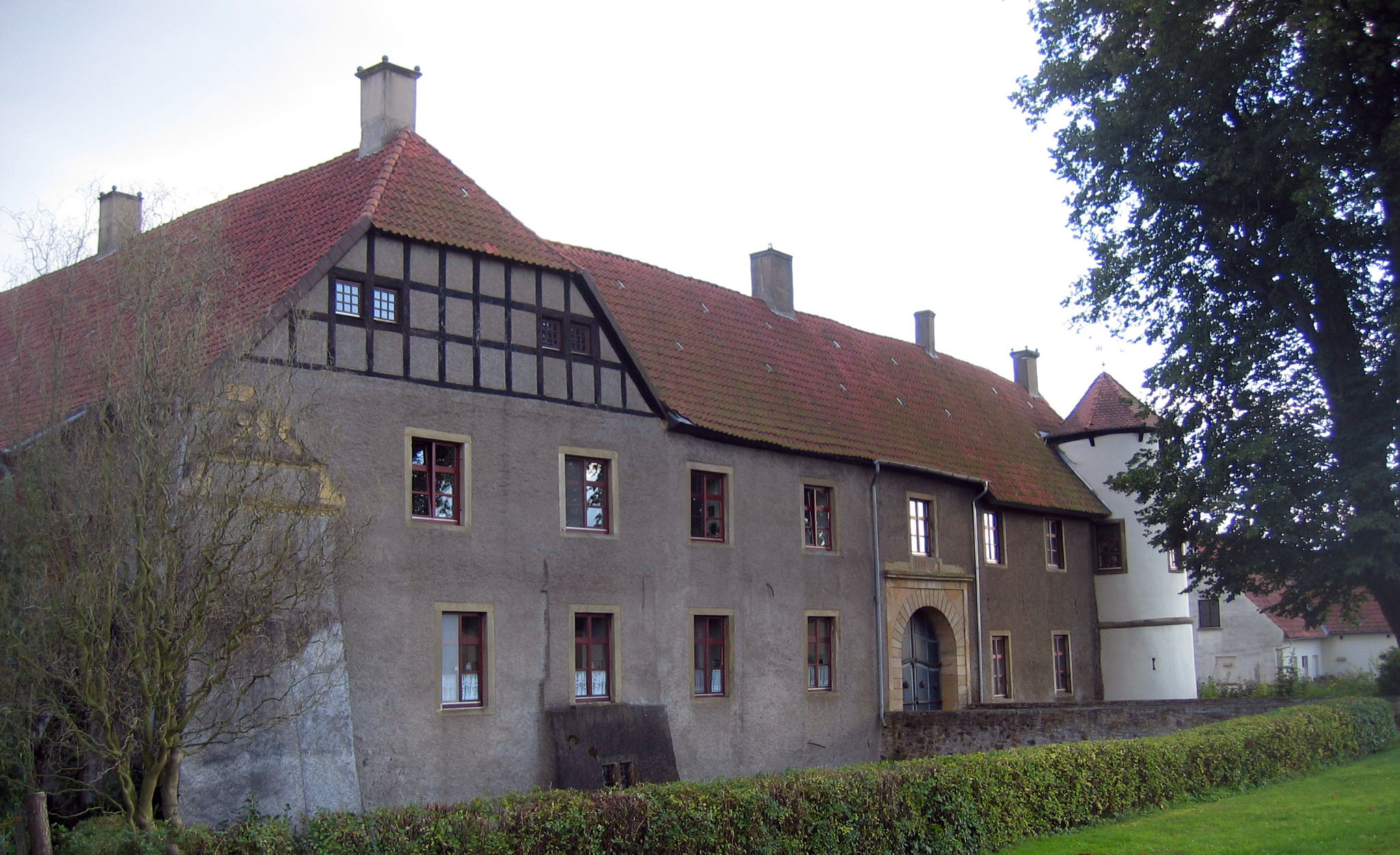 Haus Kilver, a former knight's castle, in the town of Rödinghausen-Westkilver, Germany.